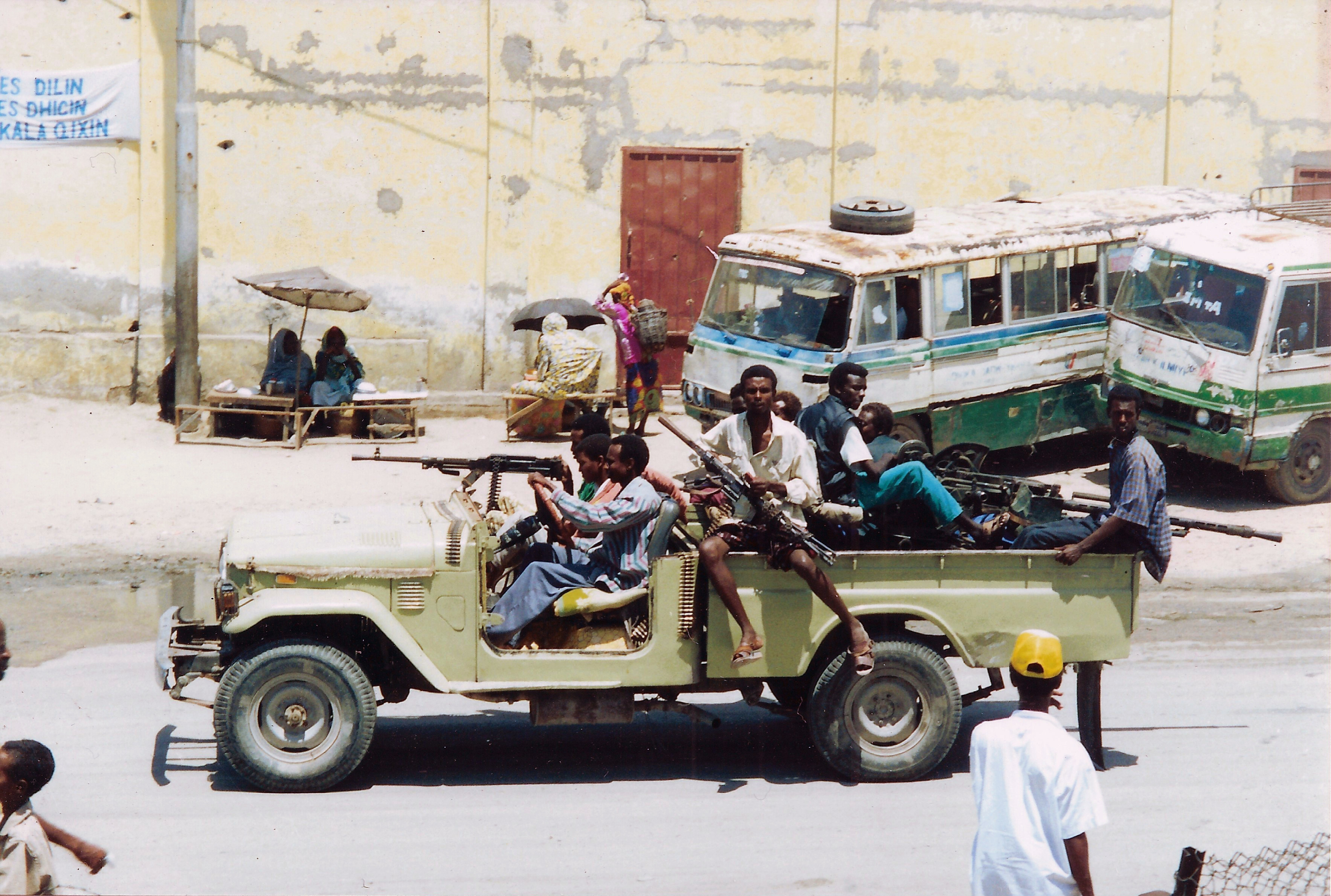 a "technical" in Mogadishu at the time of the UNOSOM mission (1992 or 1993)